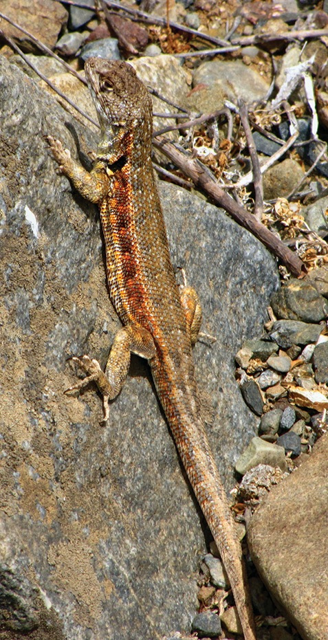 Adult male Liolaemus atacamensis from Lomas de Buitre, Chile.